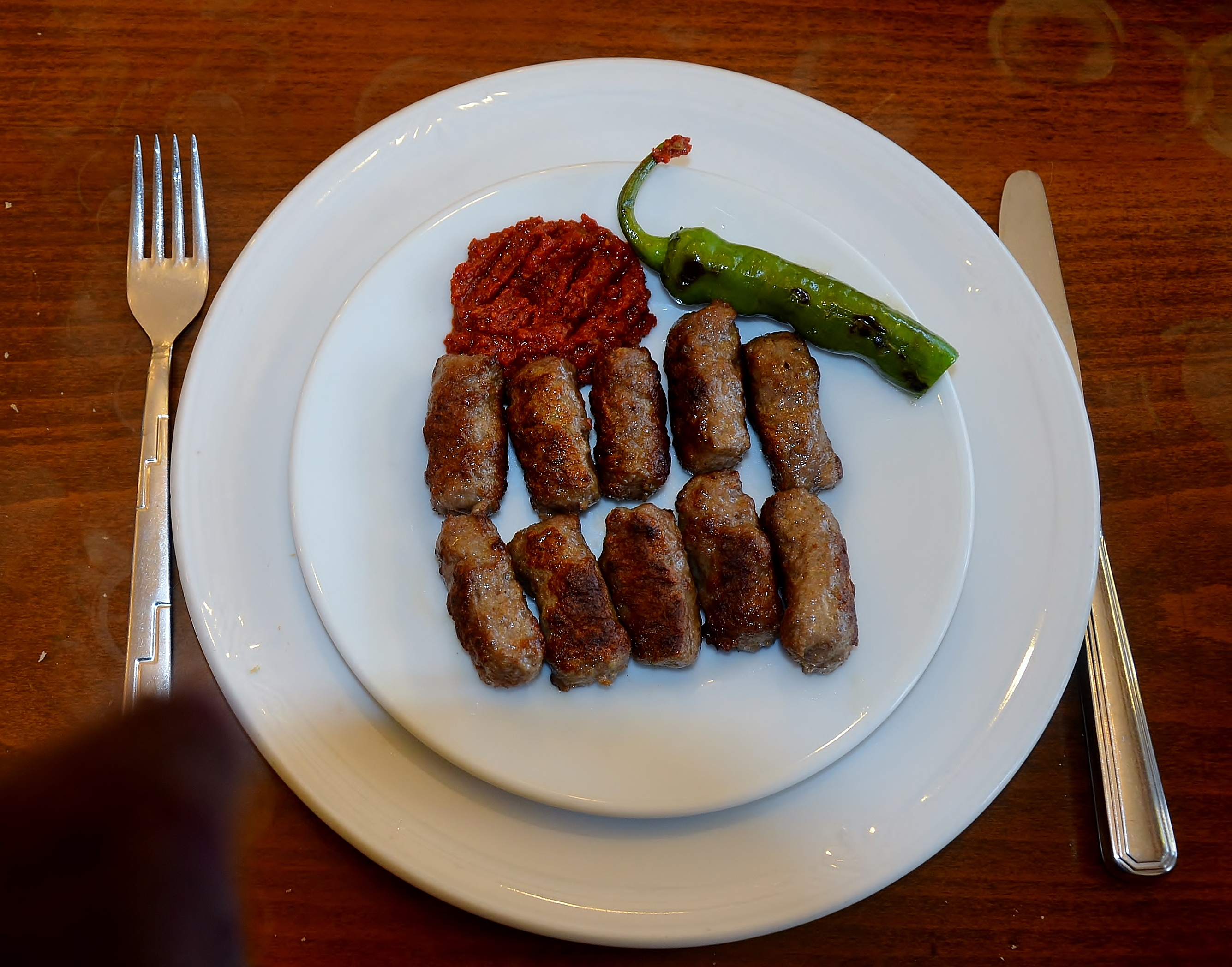 Meatballs "Tekirdağ Köfte", a speciality of Tekirdağ, Turkey